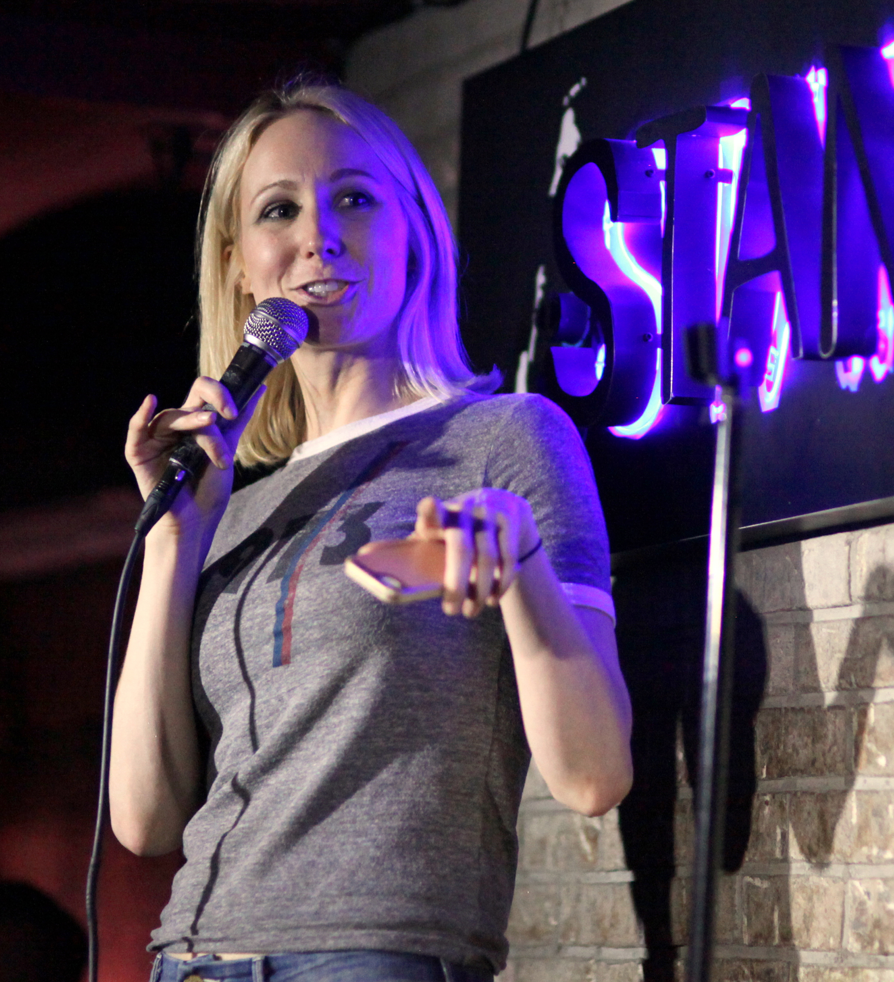 Glaser performing in August 2016.